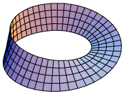 A moebius strip parametrized by the following equations: x = cos ⁡ u + v cos ⁡ n u 2 cos ⁡ u {\displaystyle x=\cos u+v\cos {\frac {nu}{2 \cos u} y = sin ⁡ u + v cos ⁡ n u 2 sin ⁡ u {\displaystyle y=\sin u+v\cos {\frac {nu}{2 \sin u} z = v sin ⁡ n u 2 {\displaystyle z=v\sin {\frac {nu}{2 } , where n=1. This plot is for display purposes by itself as a thumbnail. If you are looking for the image that is part of the sequence from n=0 to 1, see below for the other verison, along with a larger version (800px) of this image